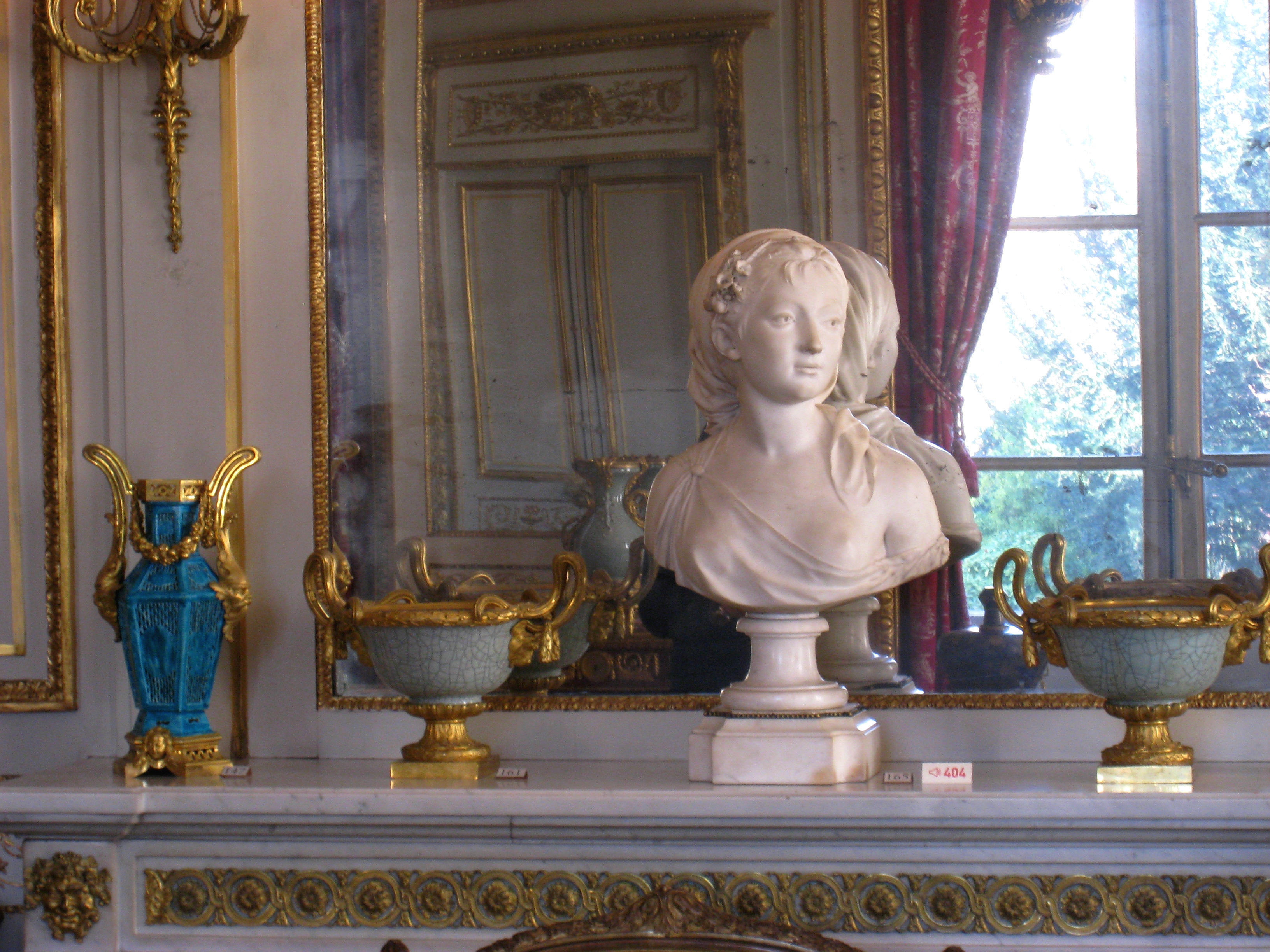 Jean-Antoine Houdon - bust of "Summer". In the Musée Nissim de Camondo, Paris, France. The original work is old enough so that copyright (if any) has long since expired. The museum imposed no restrictions on photography (except prohibiting flash) in writing and when I explicitly asked; thus the original image appears free of copyright restrictions.